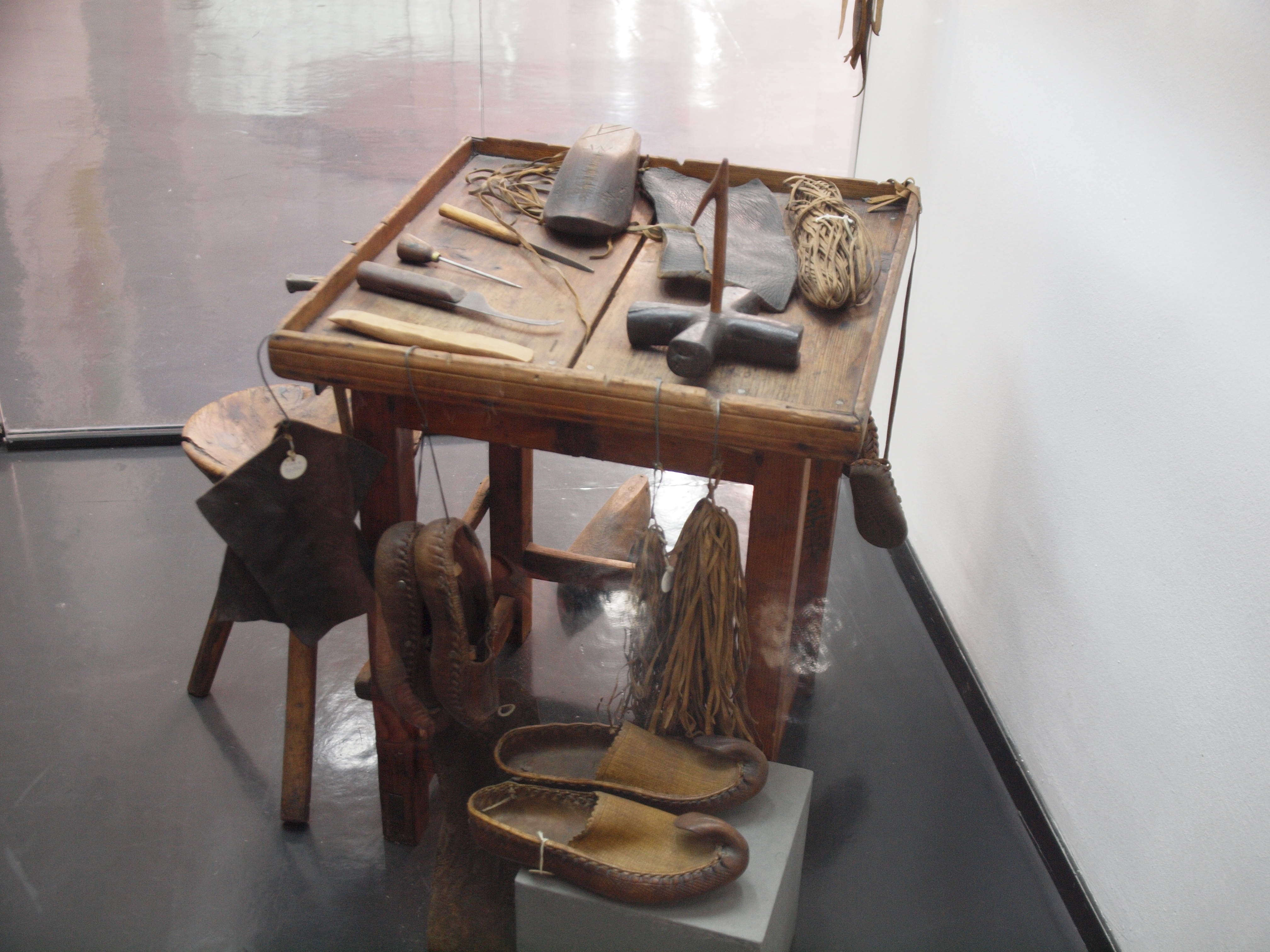 Opancarski zanat Belgrad ethographical museum